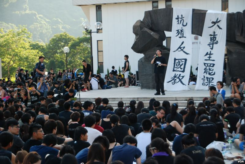 Hong Kong university students boycott classes against National Education